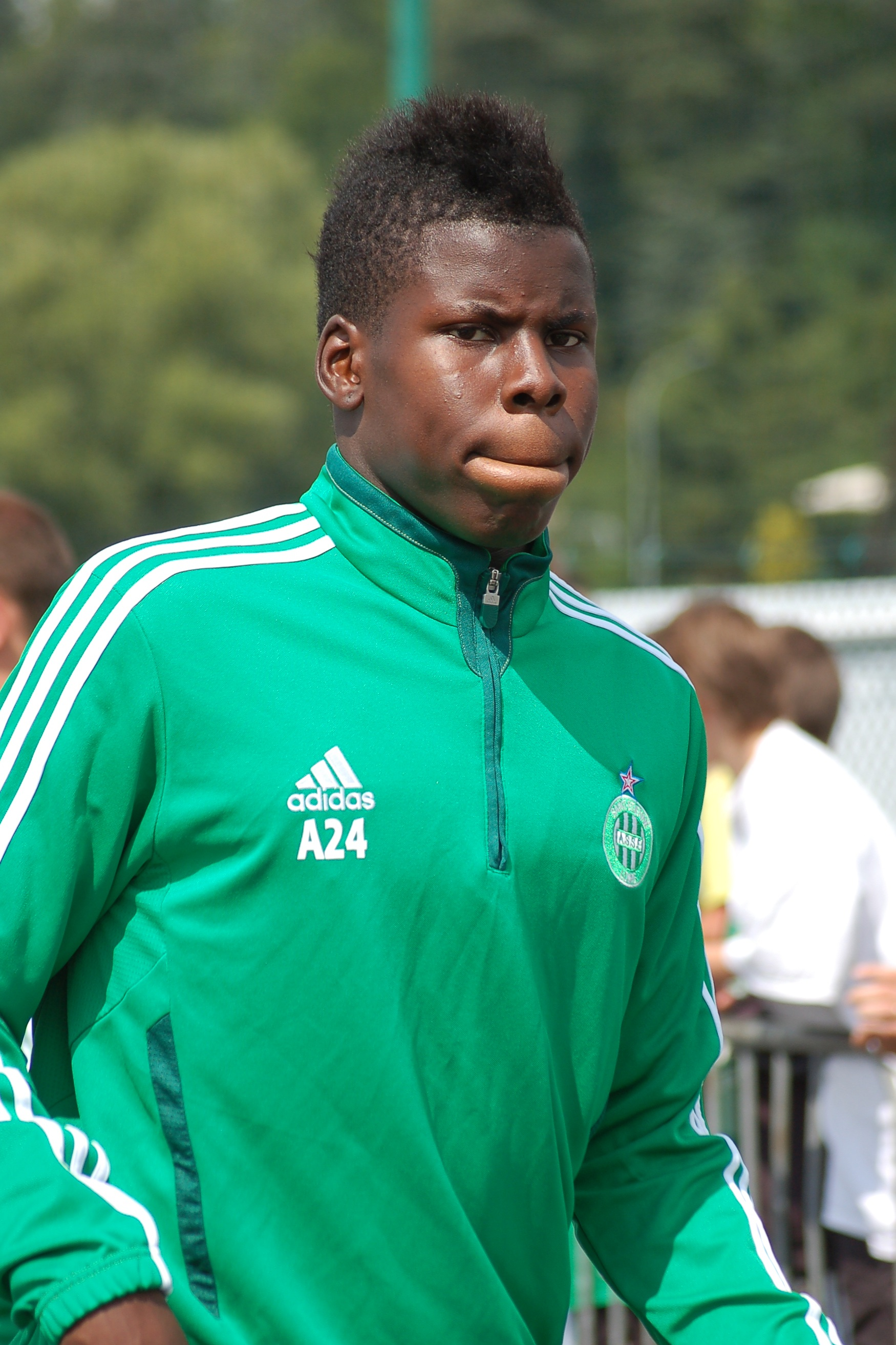 Football player Kurt Zouma training with AS Saint-Etienne, on August 3rd, 2011 (L'Etrat, France).